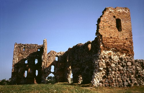 Castle Ruins in Ludza, Latvia